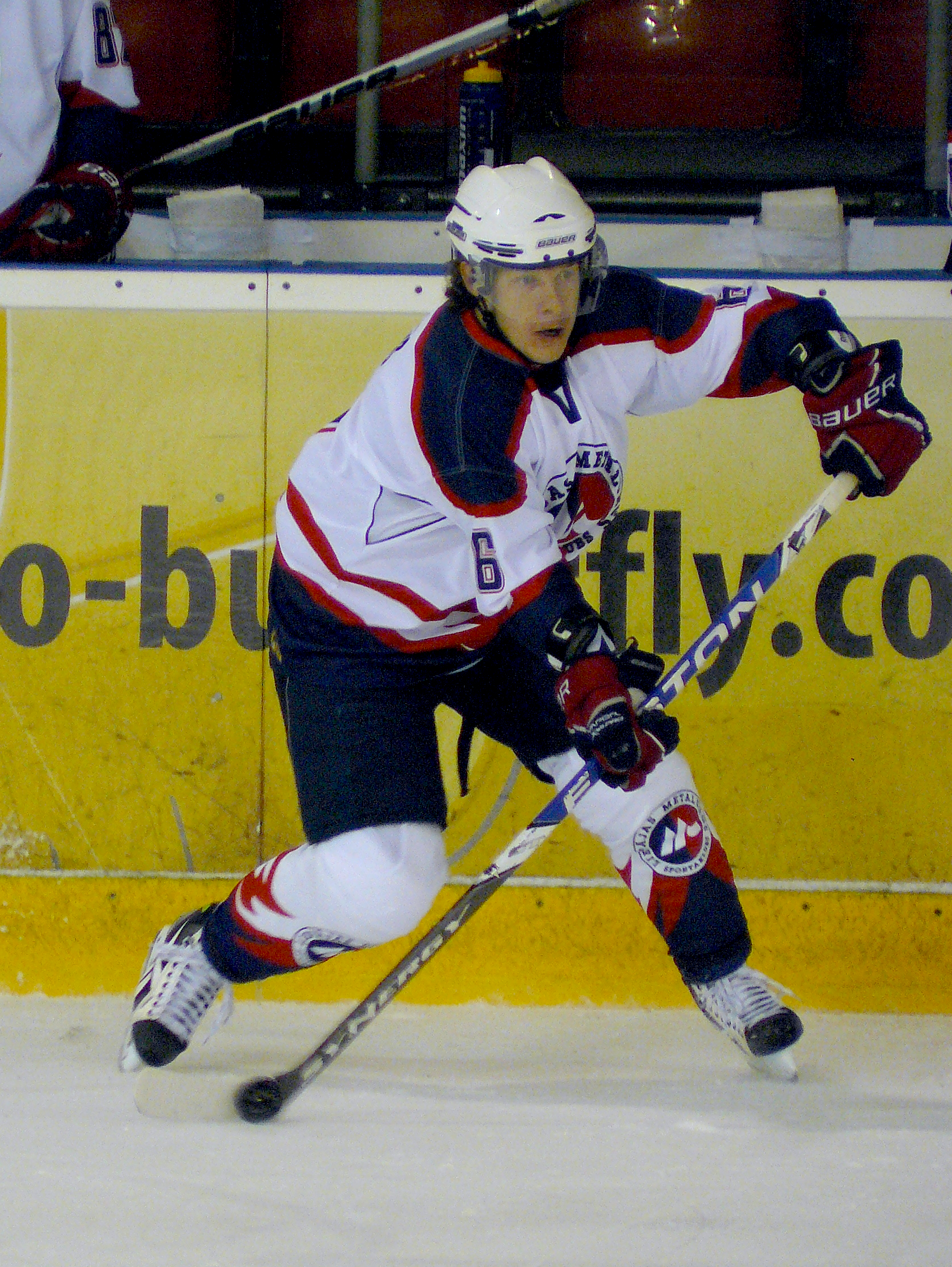 Defender Artūras Katulis #6 of the Metalurgs Liepaja during the Belarus Extraliga game against the Sokil Kyiv on September 13, 2010 at the Terminal Arena in Brovary, Ukraine. Sokil Kyiv won the game 3:1.